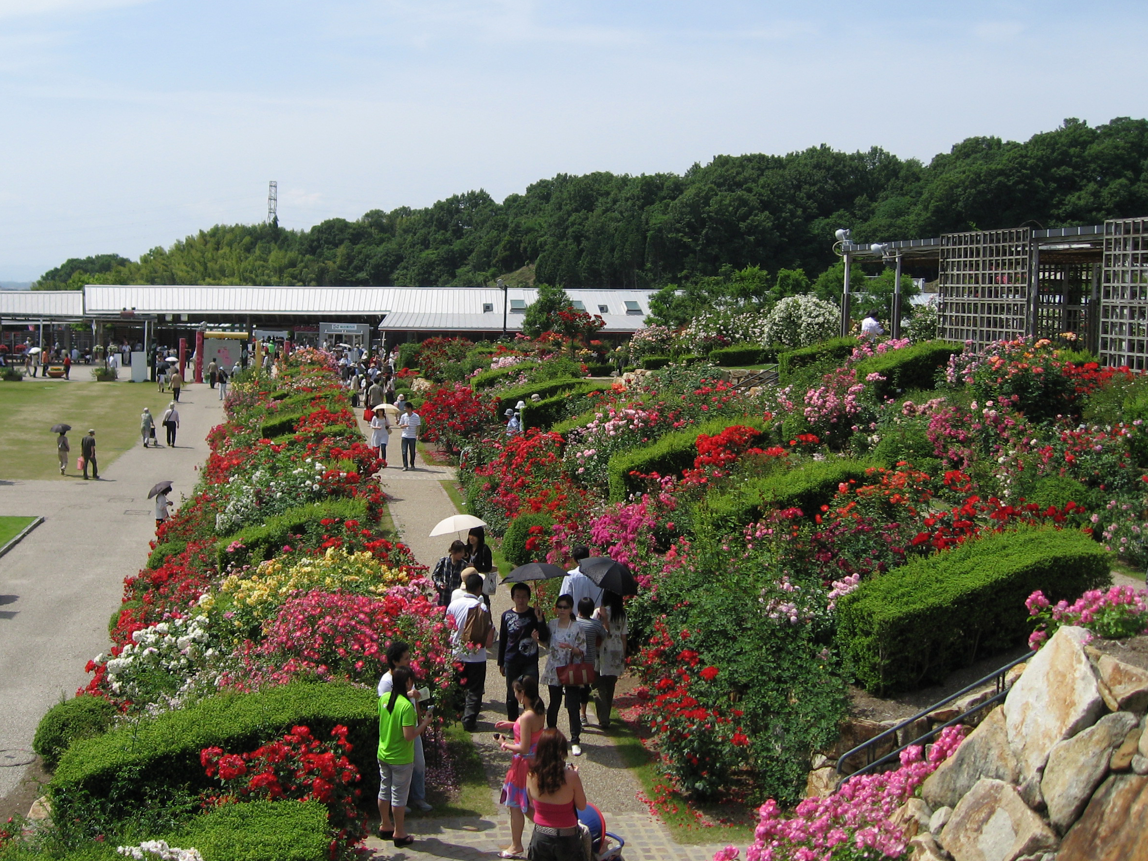 Terrace Garden and West Gate (back of the garden), Flower Festival Commemorative Park Seta Kani, Gifu Japan.